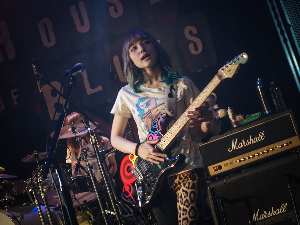 SCANDAL